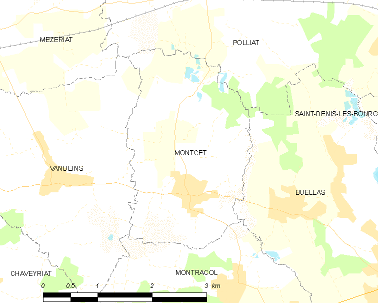 Map of French commune: Montcet Map commune FR insee code 01259.png